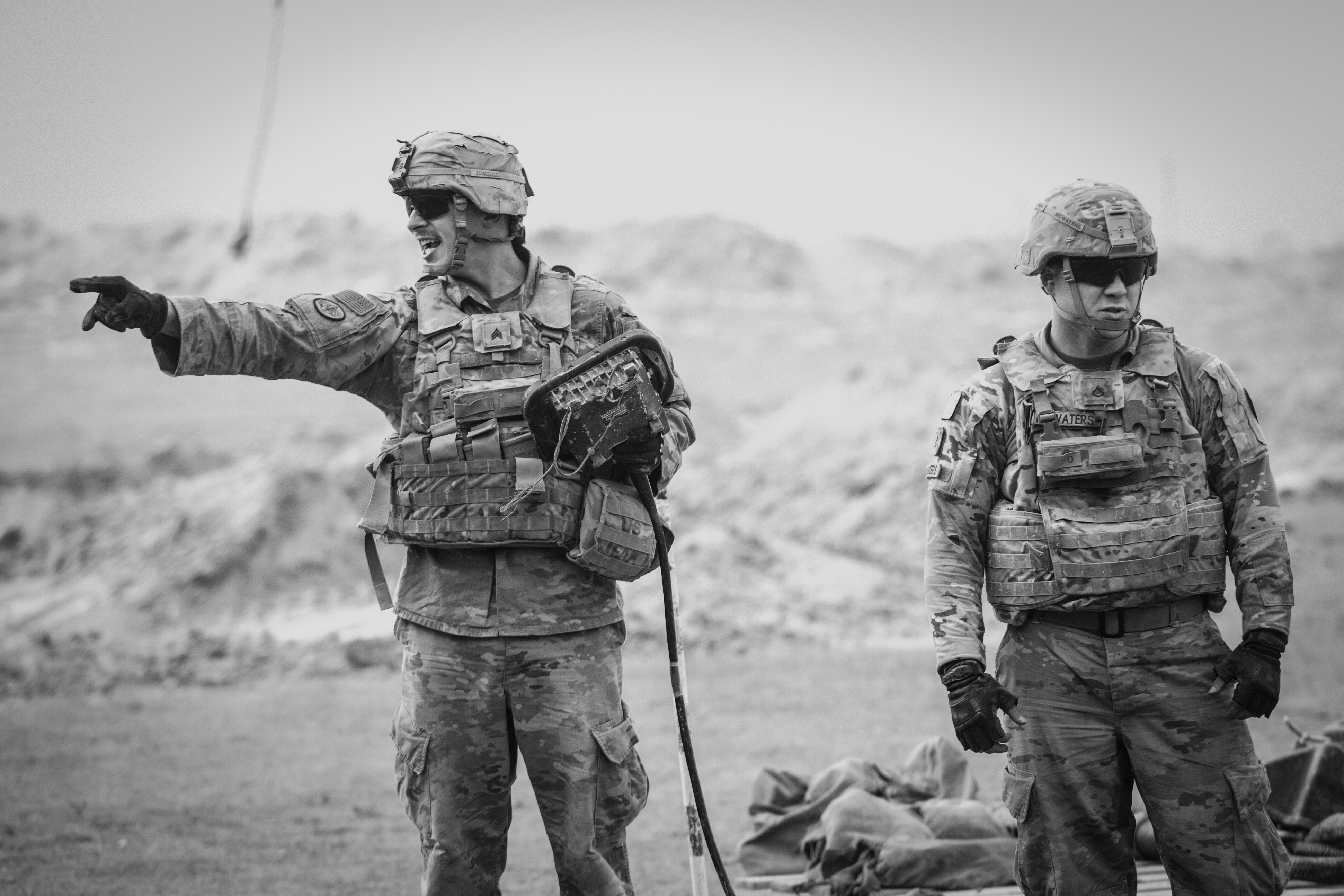 U.S. Army Soldiers assigned to the 3rd Cavalry Regiment prepare to fire an M777 howitzer on Firebase Sa-ham, Iraq, Dec. 2, 2018. The 3rd Cav. Regt. is part of Combined Joint Task Force - Operation Inherent Resolve, supporting partner forces as they clear the last remaining pockets of ISIS from the Middle Euphrates River Valley and prevent them from fleeing into Iraq. In conjunction with partner forces, Combined Joint Task Force – Operation Inherent Resolve defeats ISIS in designated areas and sets conditions for follow-on operations to increase regional stability. (U.S. Army photo by Sgt. 1st Class Mikki L. Sprenkle)